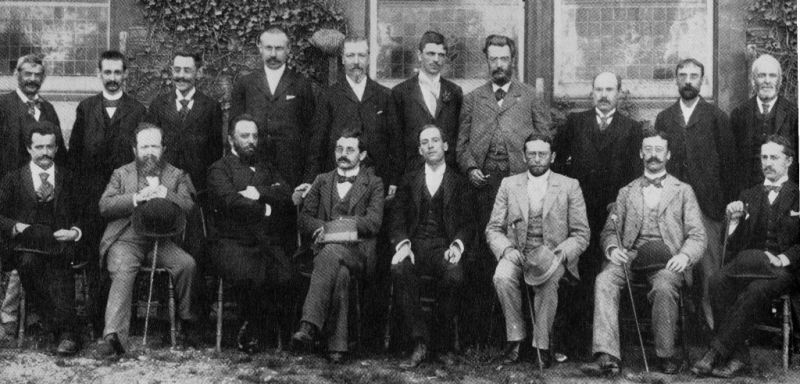 Contestants at the Hastings 1895 International Chess Tournament